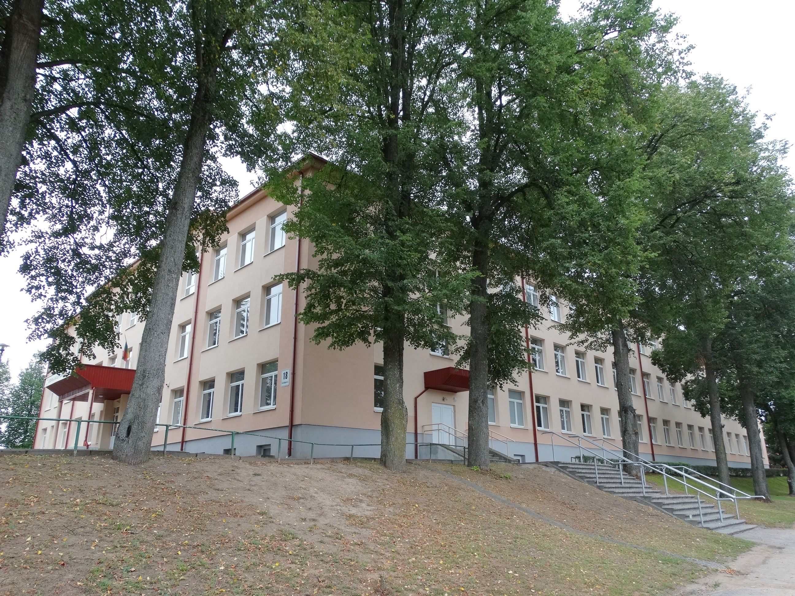 Saulės Gymnasium, Utena, Lithuania